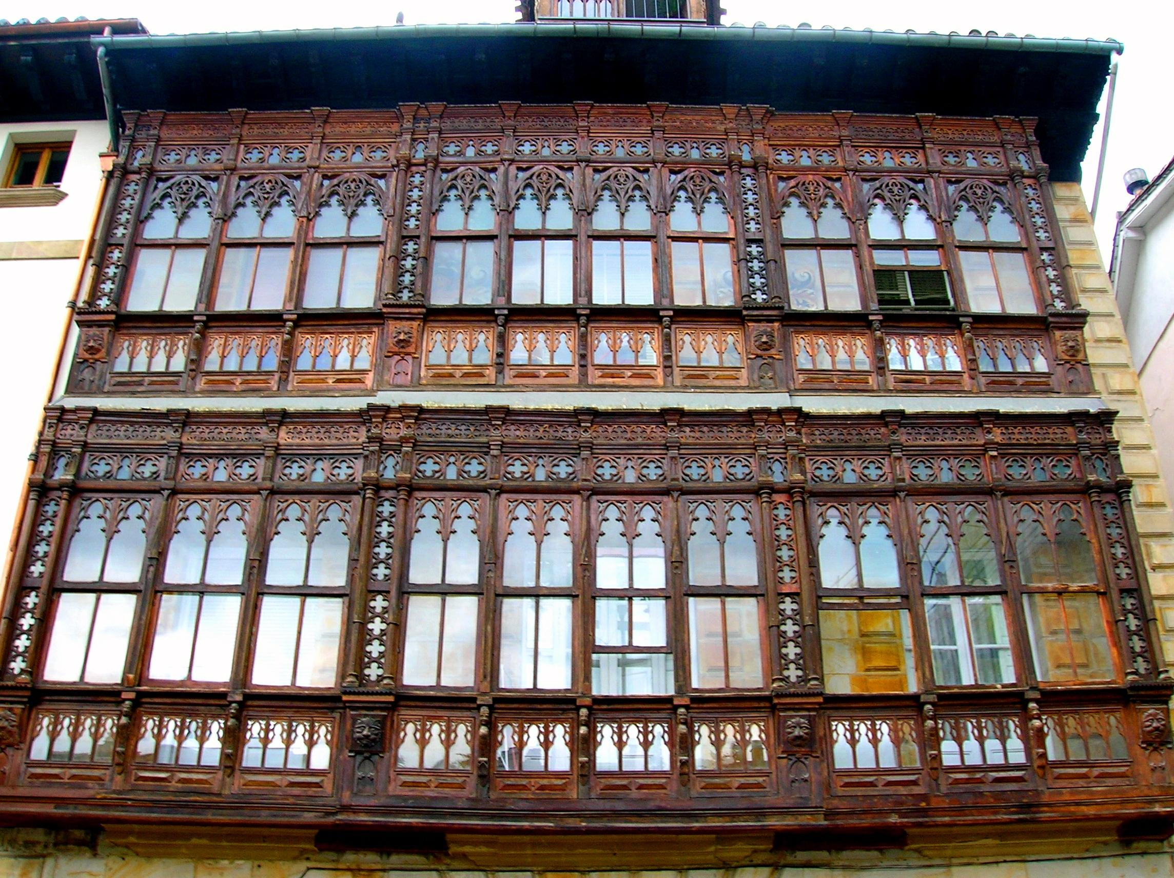 Palacio Andinako-Loiola, en Mondragón (Guipúzcoa, País Vasco, España)